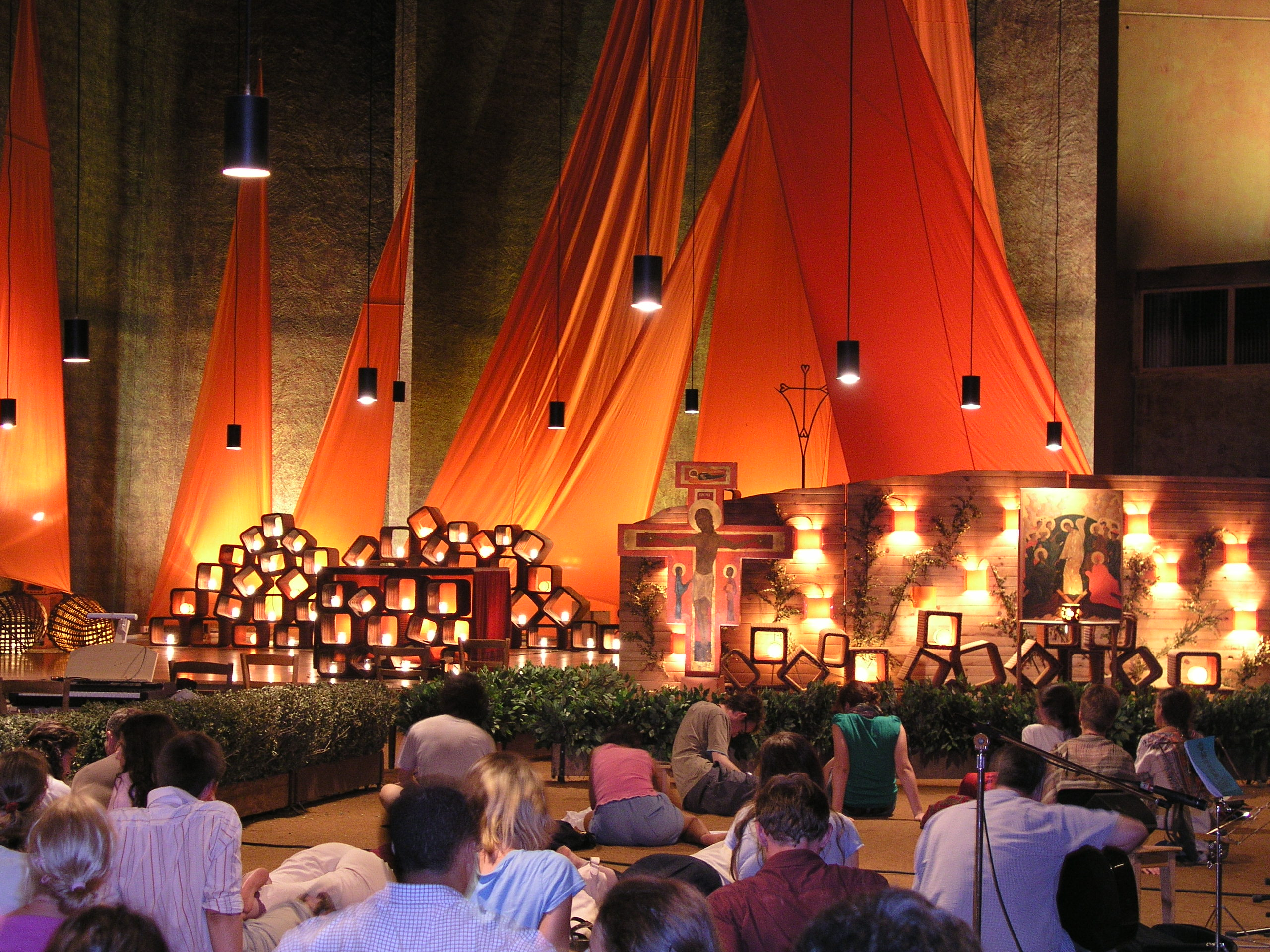 Prayer in Taizé church